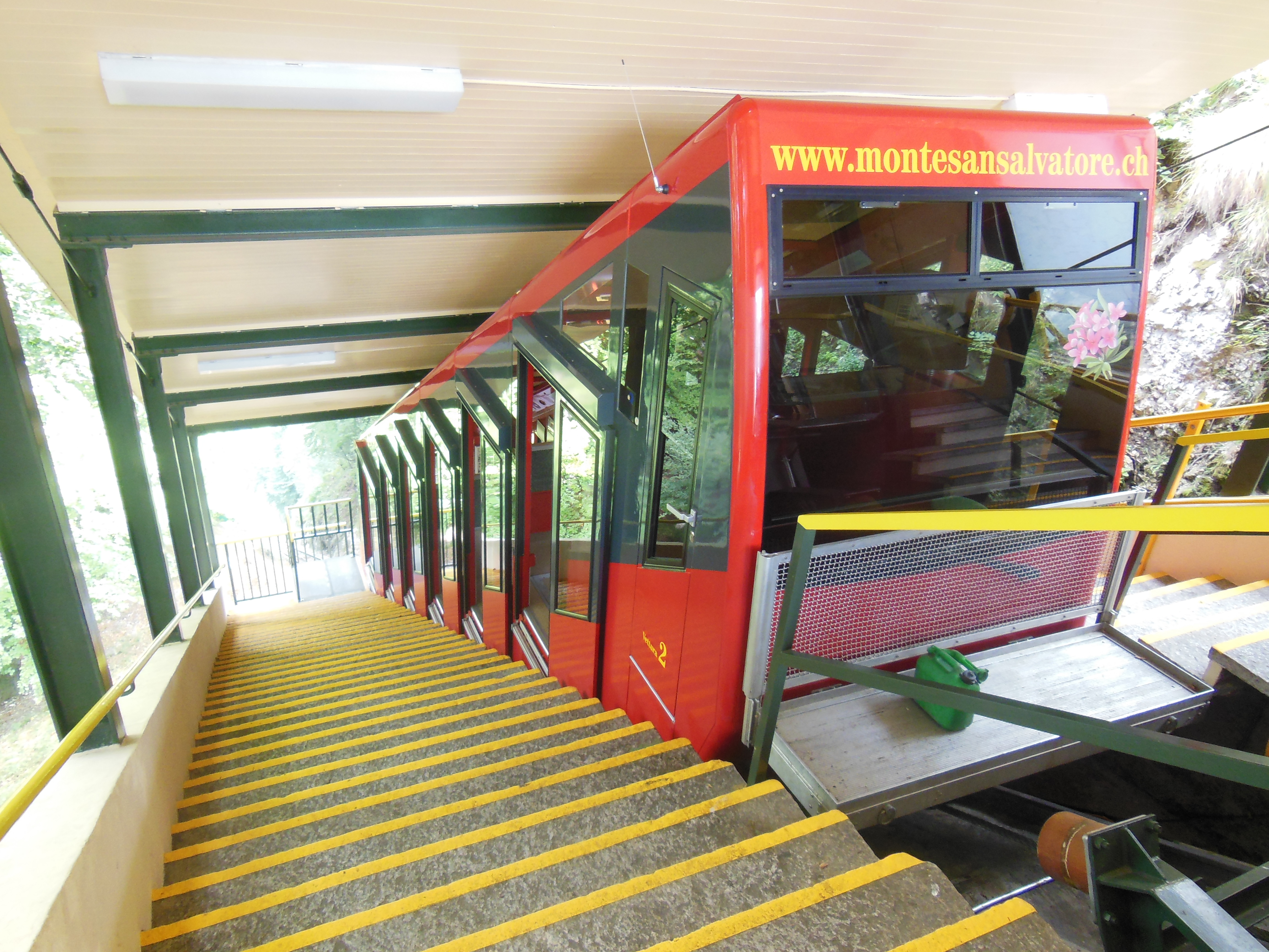 Upper section car in the upper terminus of the Monte San Salvatore funicular. For more information see the wikipedia article Monte San Salvatore funicular.